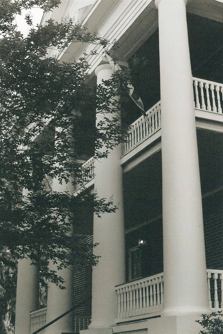 The Columns in Tallahassee, FL. The building sits at the corner of Park and Duval and is one of the key points in the Park Avenue Historic district. It's presently the home of the Tallahassee Chamber of Commerce.